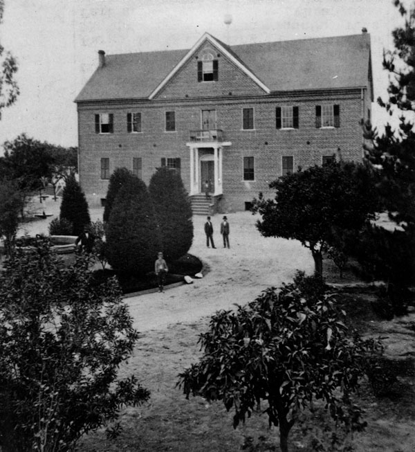 St. Vincent's College, which covered an entire block, bounded by 6th, 7th, Fort and Hill streets. A small lane, St. Vincent's Place, ran north into campus from 7th Street. Note missing cross on top of building. Corner stone was laid in August, 1866. Historical Notes: In 1865, the Vincentian Fathers were commissioned to found St. Vincent's College for boys in Los Angeles, and appointed John Asmuth, C.M. as its first President Rector. The college was originally located in the Lugo Adobe House at the southeast corner of Alameda and Los Angeles streets. The building was one of few two-story complexes in the city at that time and had been donated by Vicente Lugo. Although the building no longer stands, its original site was across Alameda Street from the current Union Station on the Plaza near the southeast end of the city's historic Olvera Street. After two years, the school moved several blocks over. The campus encompassed Broadway, 6th, Hill, and 7th streets, the entire block being used for athletic fields, etc. Rapid growth prompted the Jesuits to seek a new campus on Venice Boulevard in 1917. In 1918, the name was changed to Loyola College of Los Angeles. The school relocated once again to the present Westchester campus in 1929, and achieved university status in 1930, becoming Loyola University of Los Angeles. In 1973, Loyola University and Marymount College merged to form Loyola Marymount University (also known as LMU). Through this union, the expanded university maintained the century-old mission of Catholic higher education in Los Angeles.